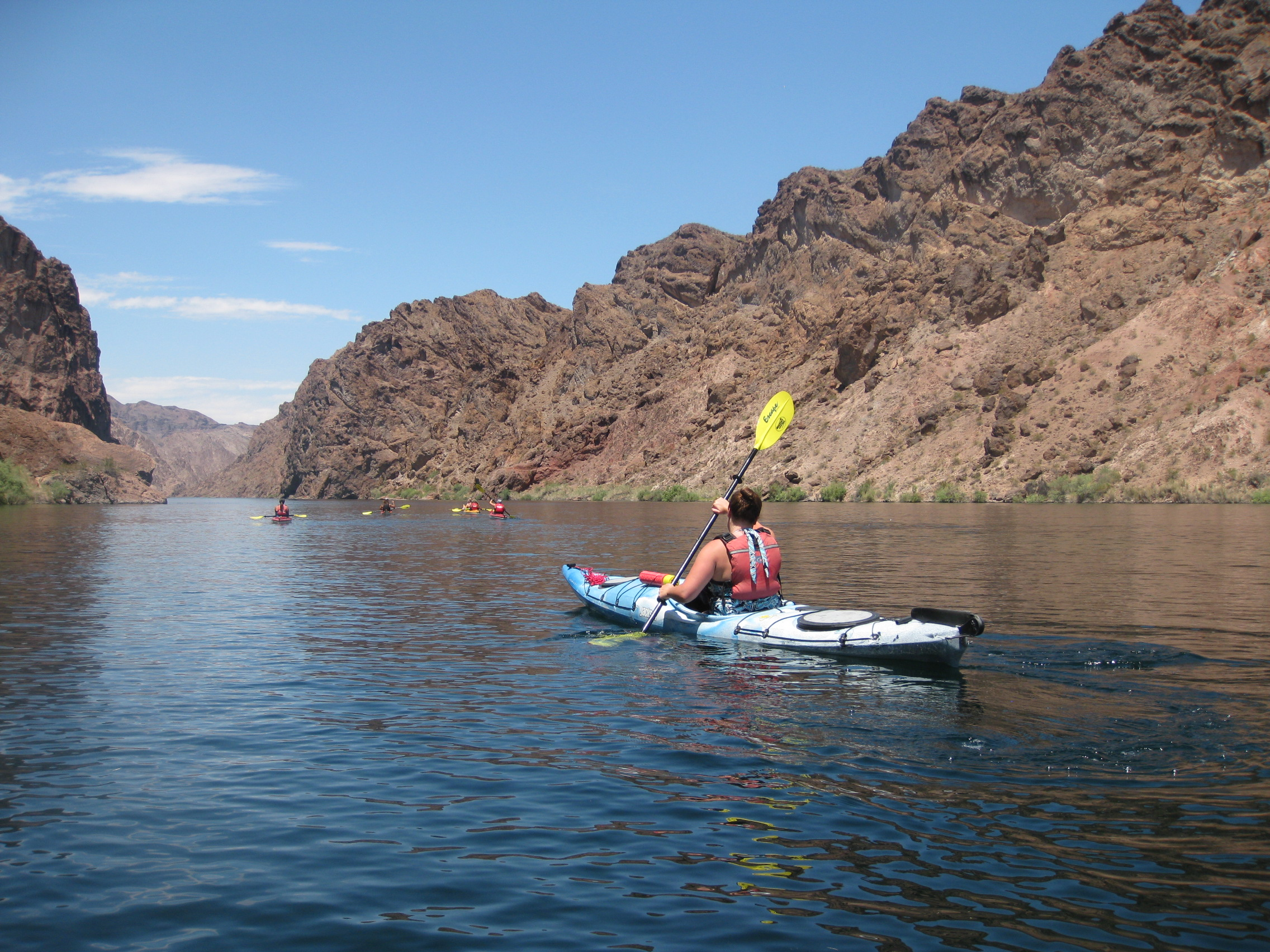 Colorado River @ Lake Mead National Recreation, Nevada / Arizona